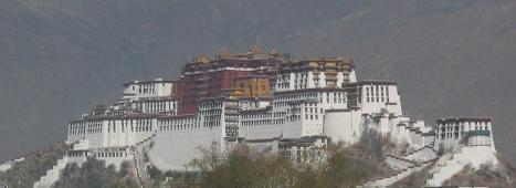 The Potala Palace in Tibet.